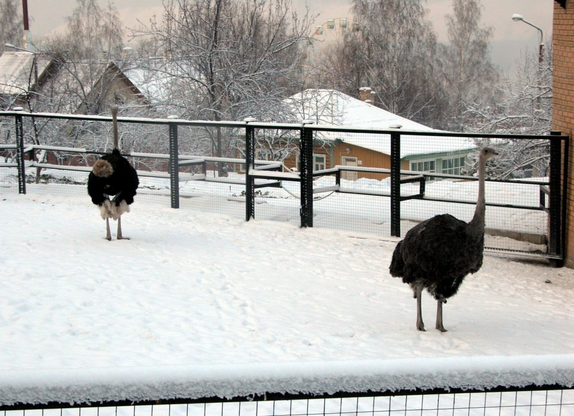 Ostrichs in a zoo in Krasnoyarsk city (Siberia), on 26th december 2005. Air temperature is -19°C. In the left there is a special house for them, opened to enter, but they stay outside!